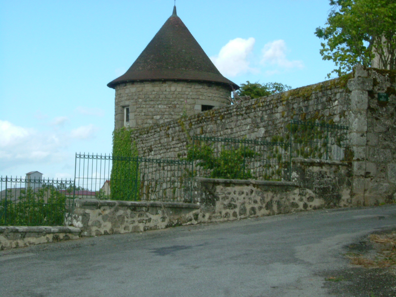 Chenerailles wall and tower